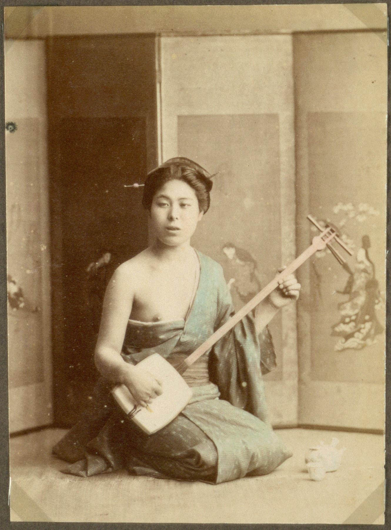 Photograph. Donated by principal Preben von Irgens-Bergh. No. es_b_00680b